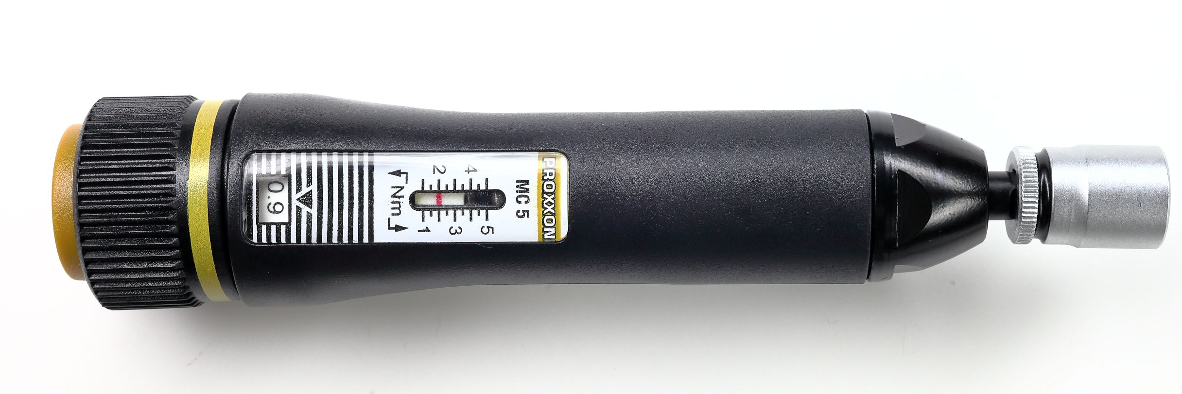 Torque screwdriver; Torque is adjustable bewtween 1..5 Nm; Type Proxxon MC5